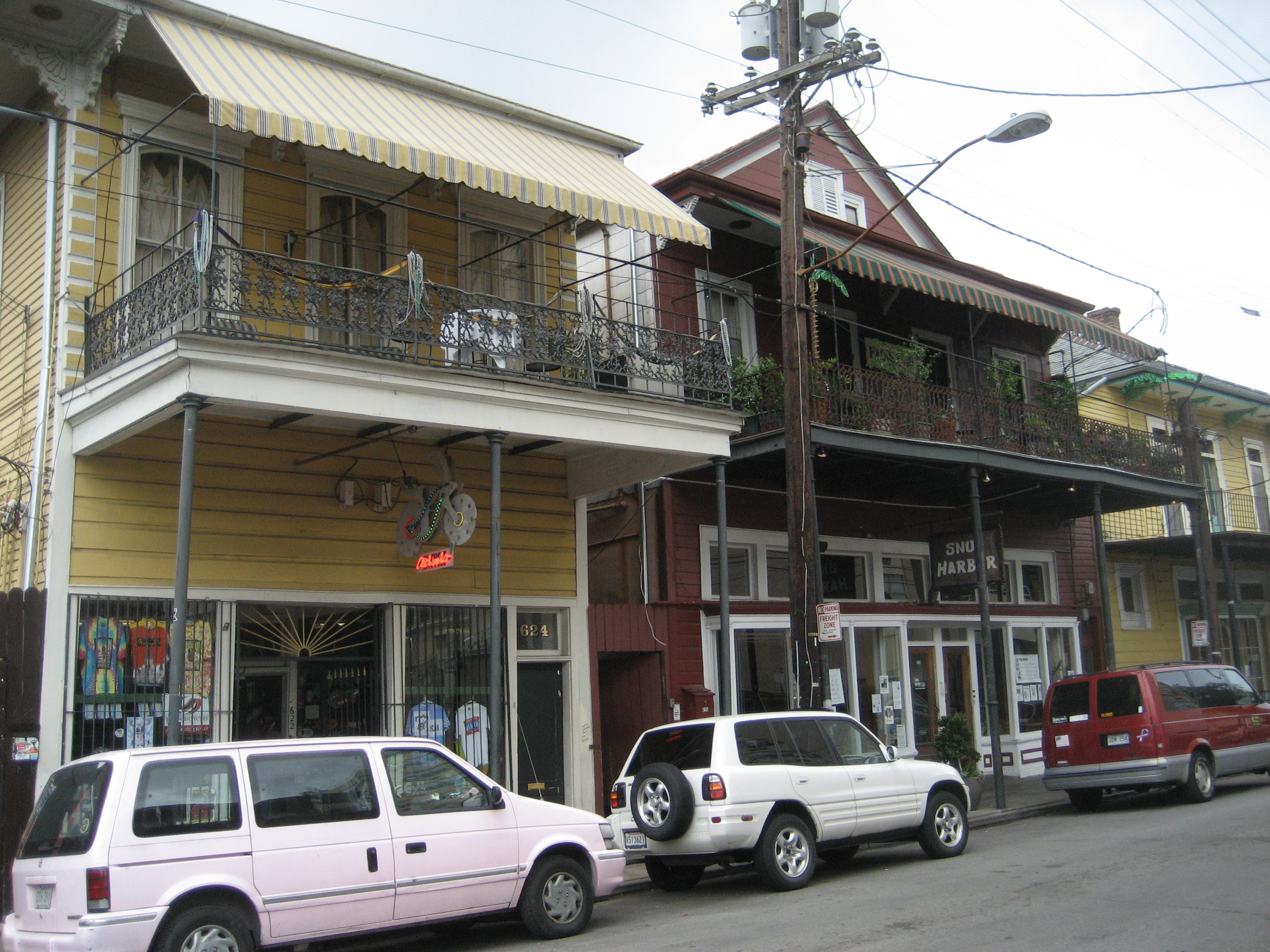 New Orleans, Frenchmen Street, Faubourg Marigny neighborhood. Exterior view with Snug Harbor building by day.